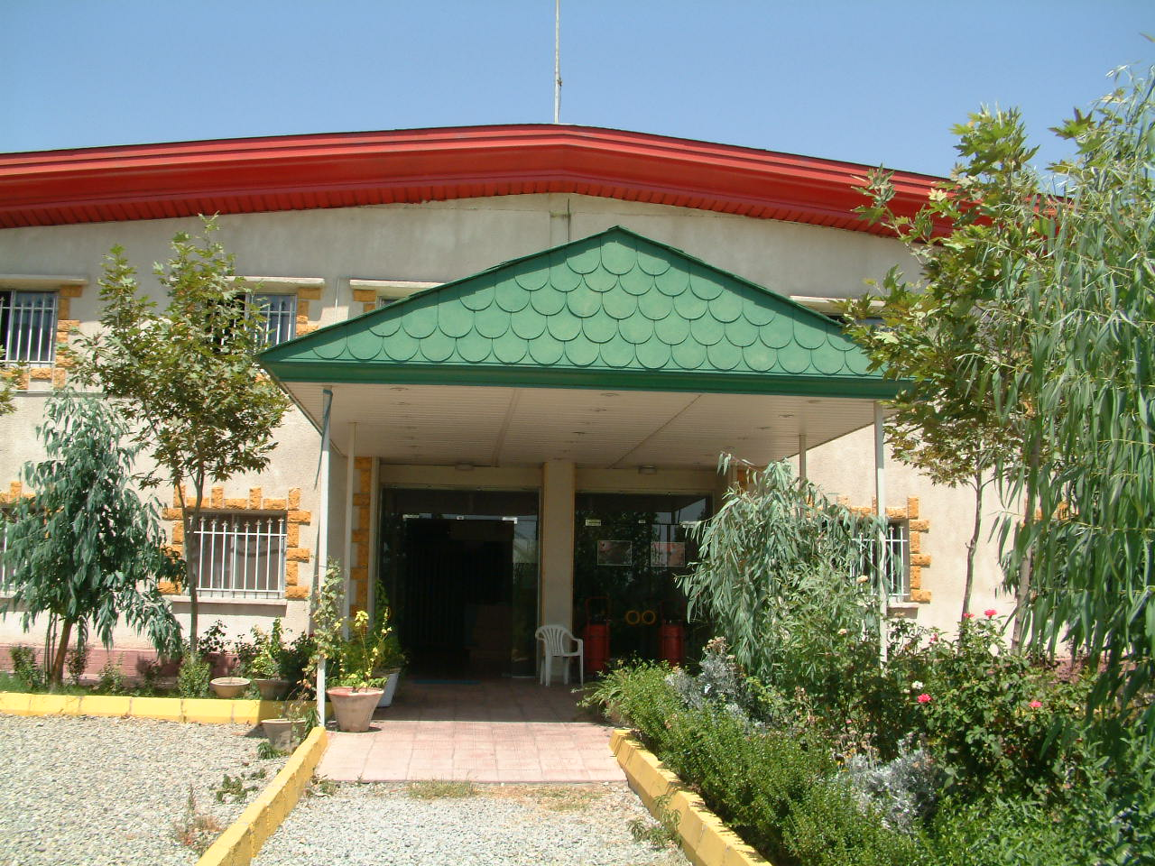 National Car Museum of Iran